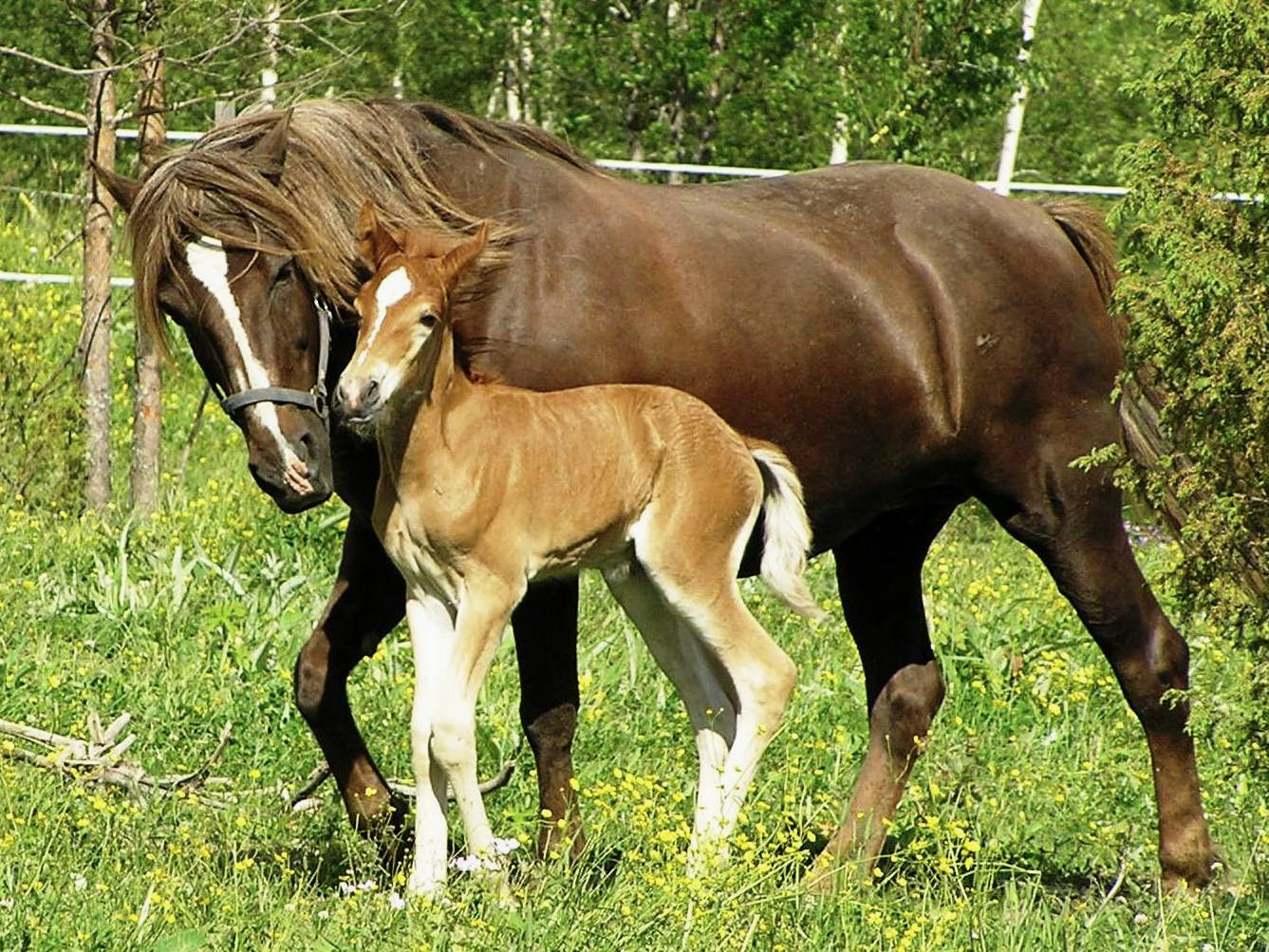 Finnhorse mare Tuli-Toto with her foal Feromoni Kuu.